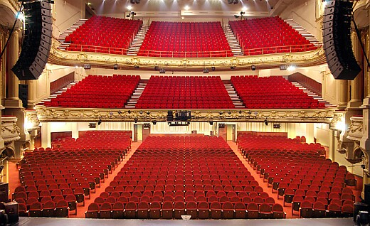 Housing altogether 1600 seats (Orchestra: 787 seats, Boxes: 432 seats, Balcony: 381 seats)